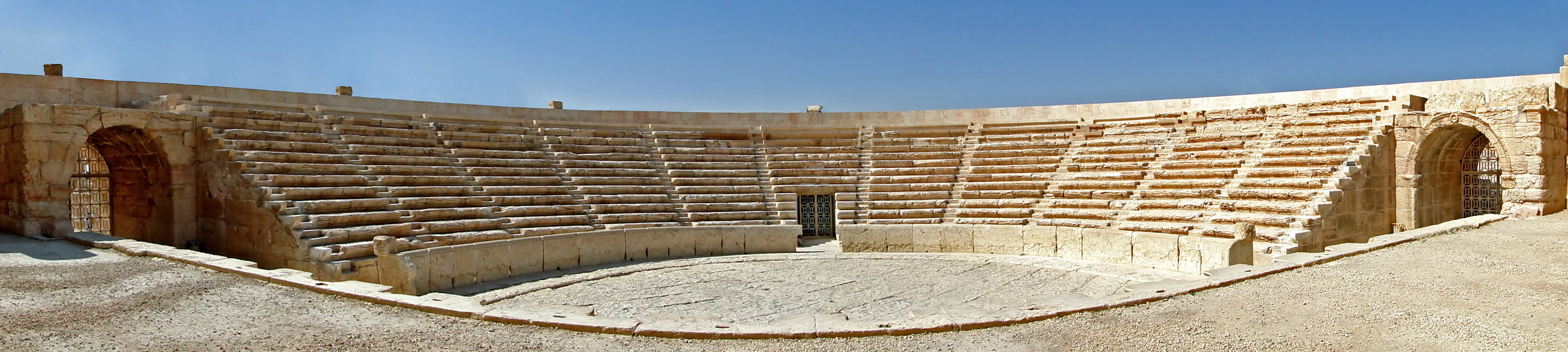 Seats of the ancient Roman theatre of Palmyra seen from the stage, Syria